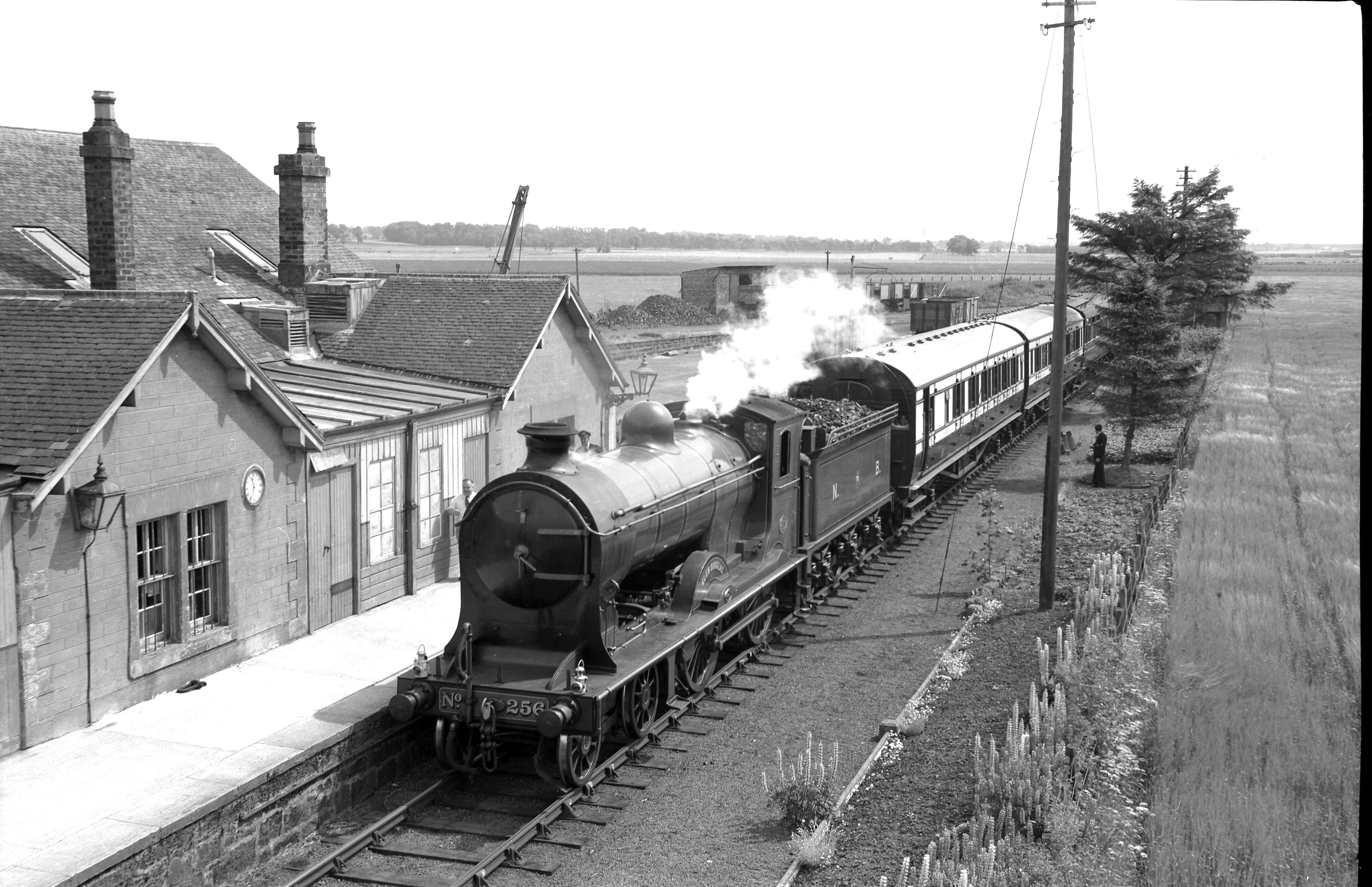 Weeks Rail tour of Scotland at Auchtermuchty on 17.6.60 hauled by restored ex-North British Railway "Glen" Class 4-4-0 No 256 "Glen Douglas"